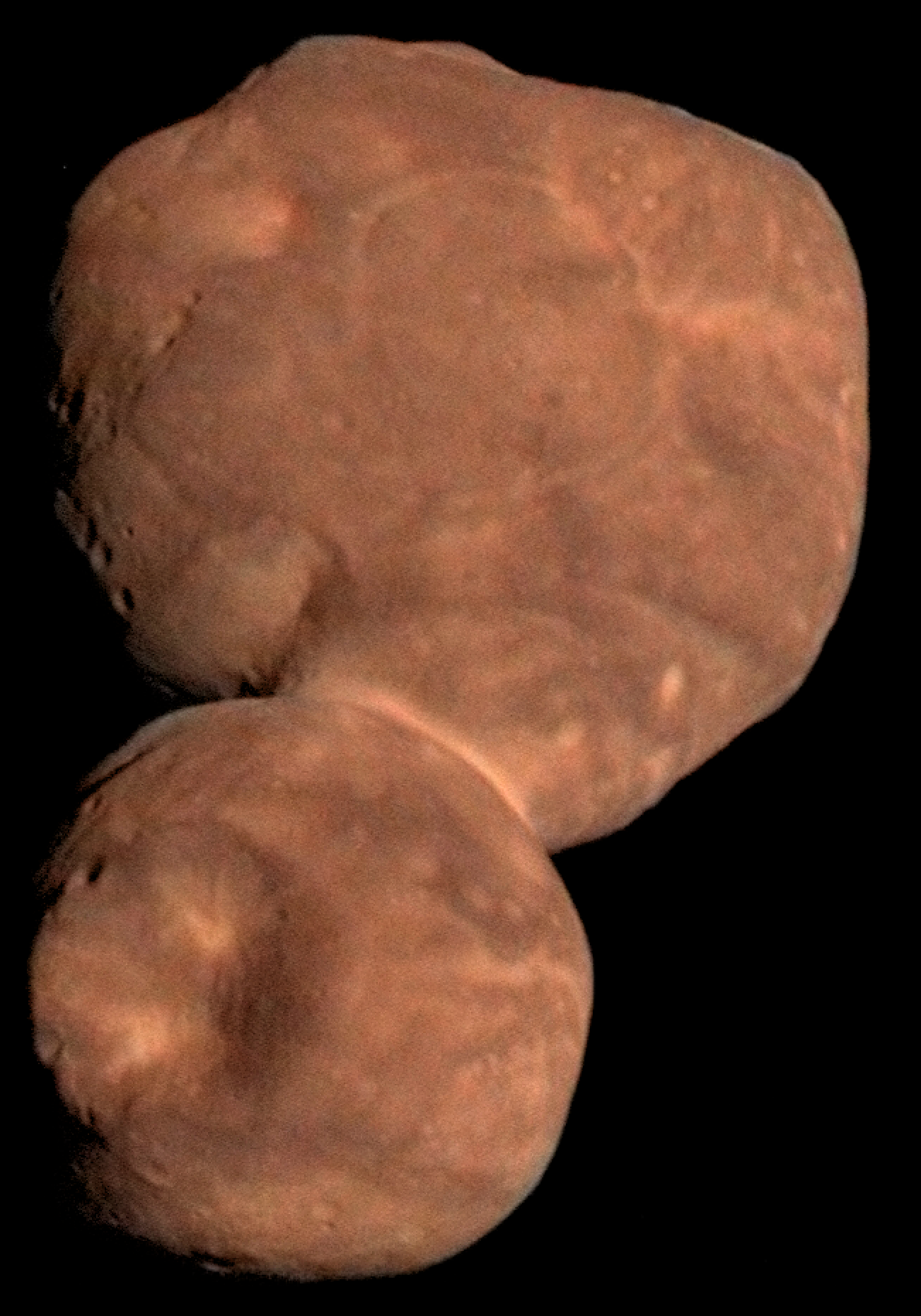 This composite image of the primordial contact binary Kuiper Belt Object 2014 MU69 (nicknamed Ultima Thule) – featured on the cover of the May 17 issue of the journal Science – was compiled from data obtained by NASA's New Horizons spacecraft as it flew by the object on Jan. 1, 2019. The image combines enhanced color data (close to what the human eye would see) with detailed high-resolution panchromatic pictures.